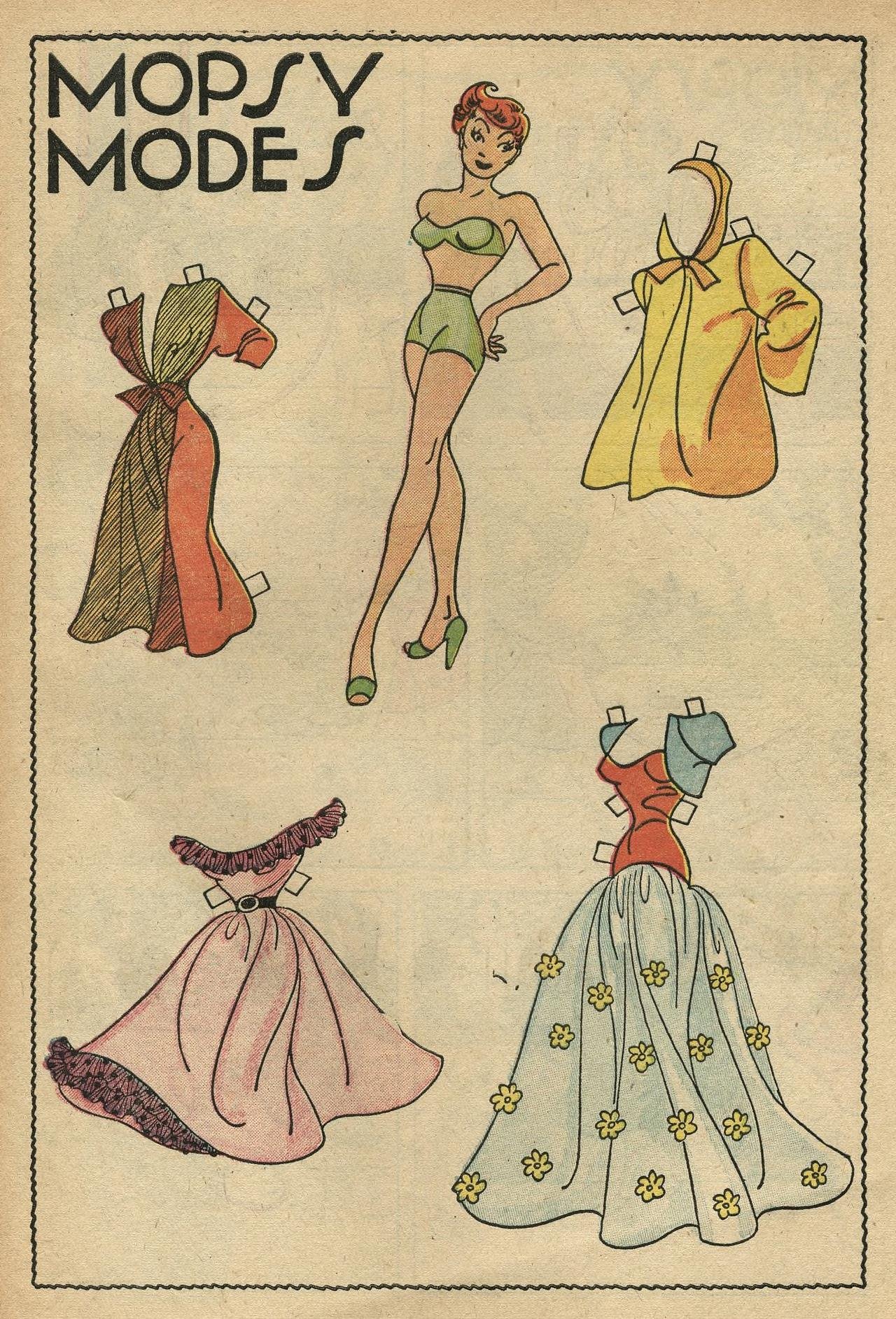 "Mopsy Modes" paper doll published in TV Teens, Vol. 2, No. 9